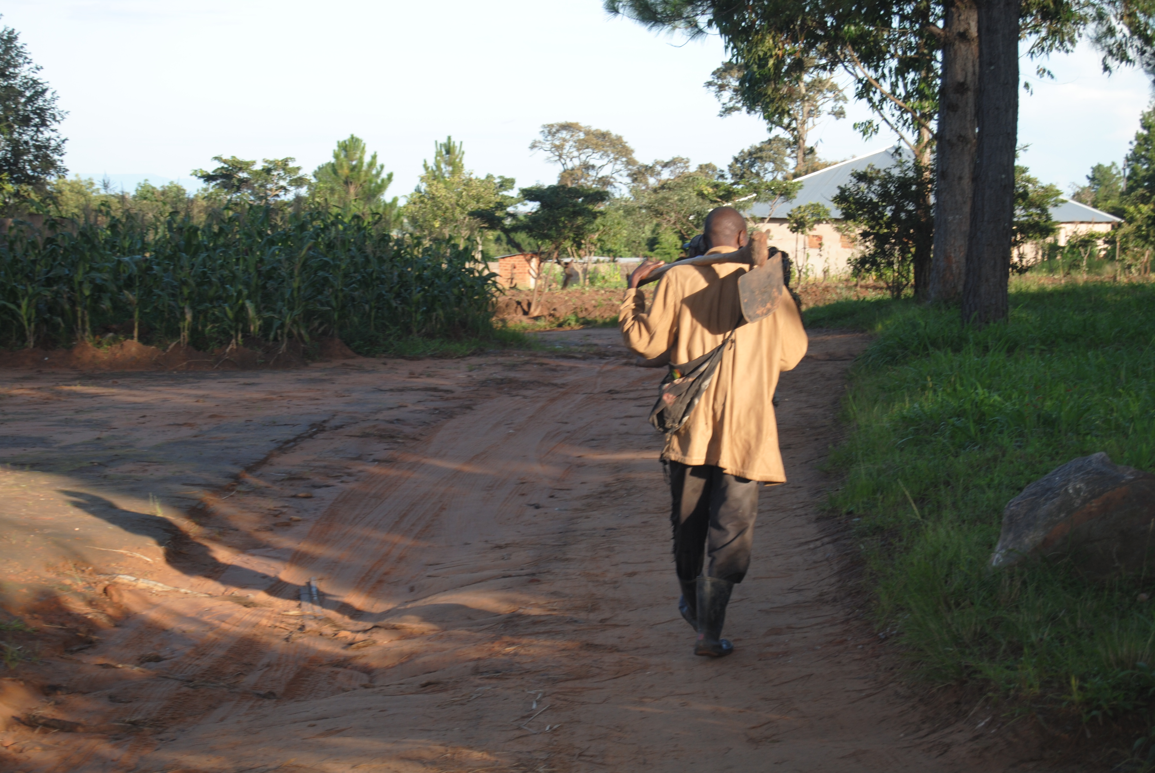 Even today the use hoes and travelling long distances to the field is very common. This is an image with the theme "Africa on the Move or Transport" from: Zambia